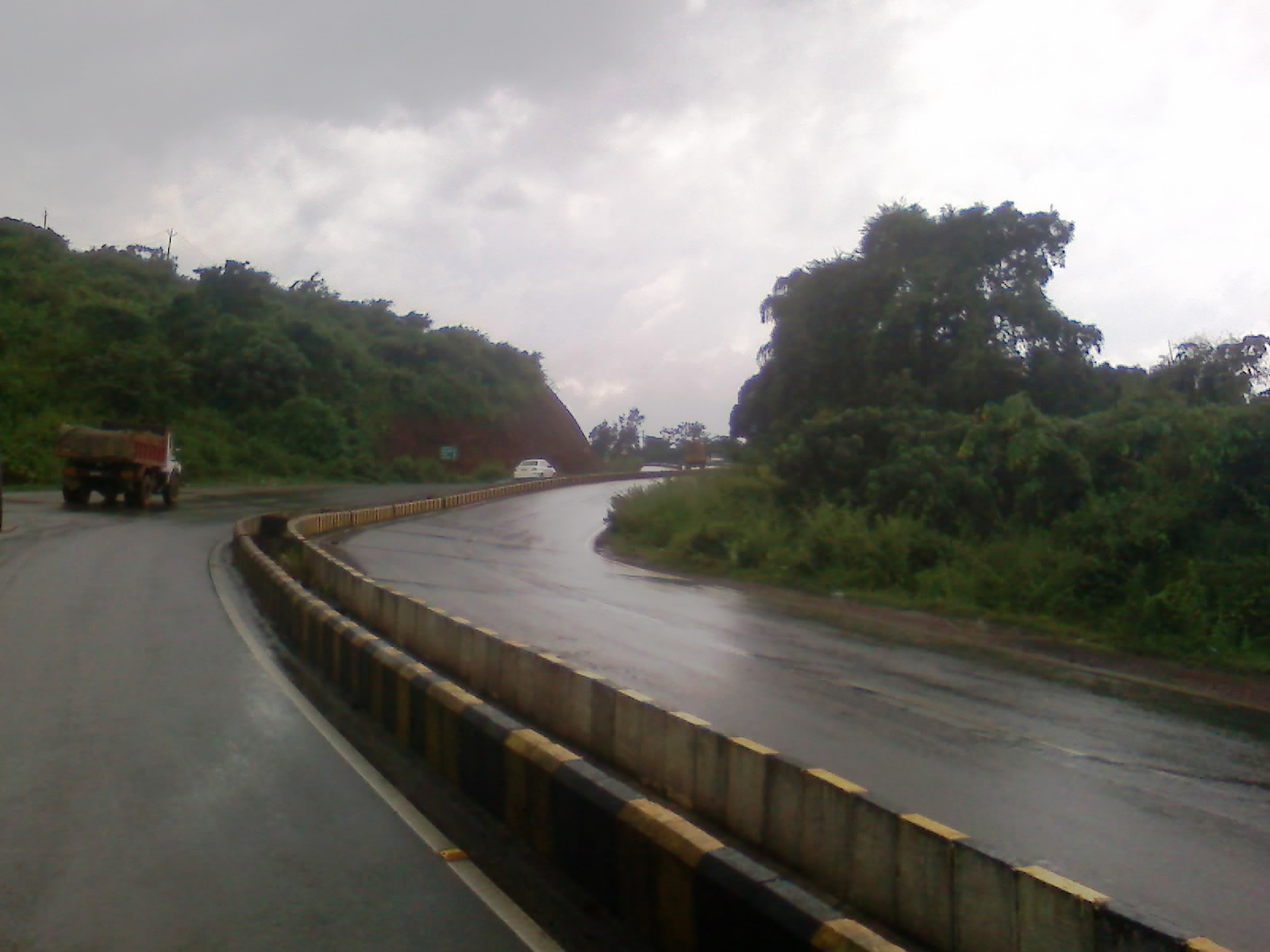 National Highway 748 (Old NH4A) in Goa.